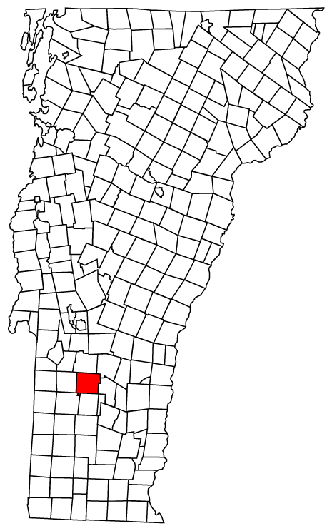 Description: Map of Vermont towns with Mount Tabor highlighted Source: Map created by Jared C. Benedict on 26 March 2004. Copyright: © Jared C. Benedict.